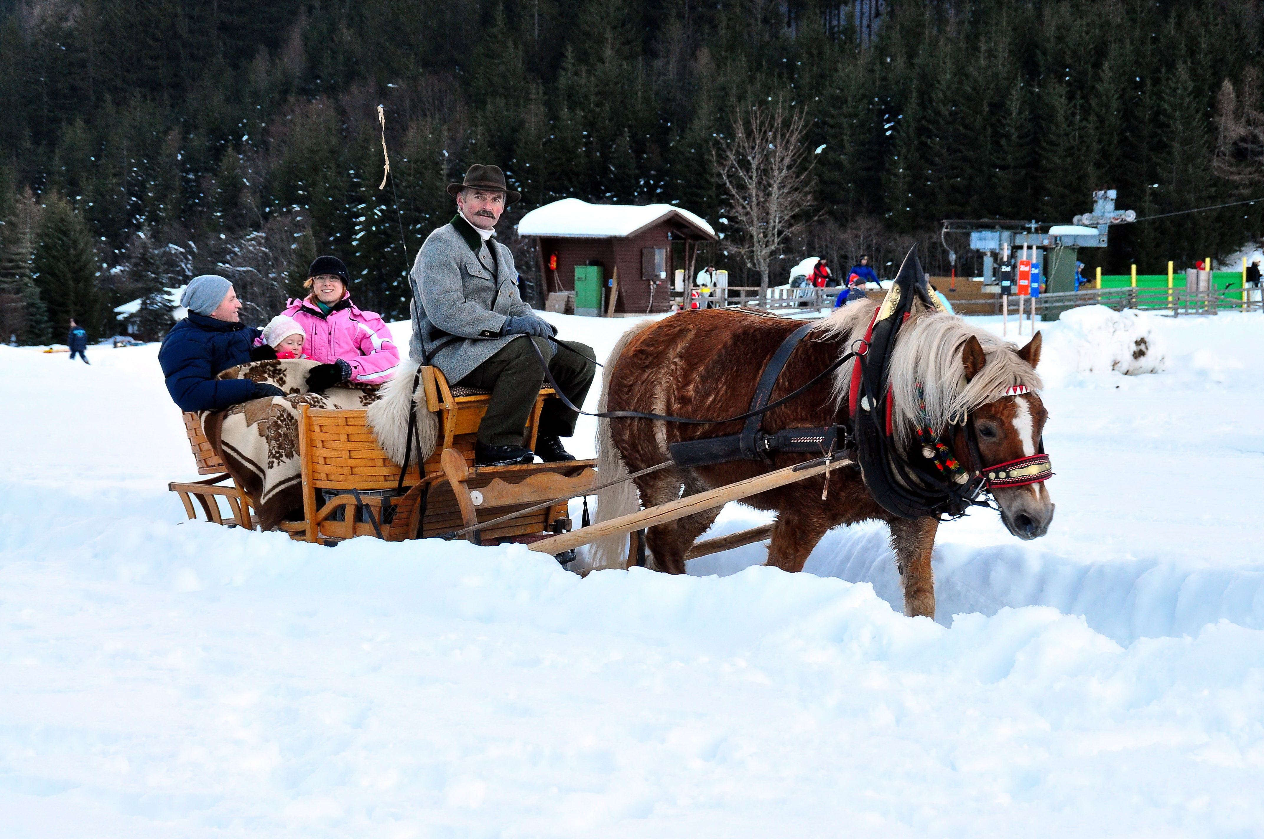 One horse sledge ride on Christmas eve in the Bodental, municipality Ferlach, district Klagenfurt Land, Carinthia / Austria / EU